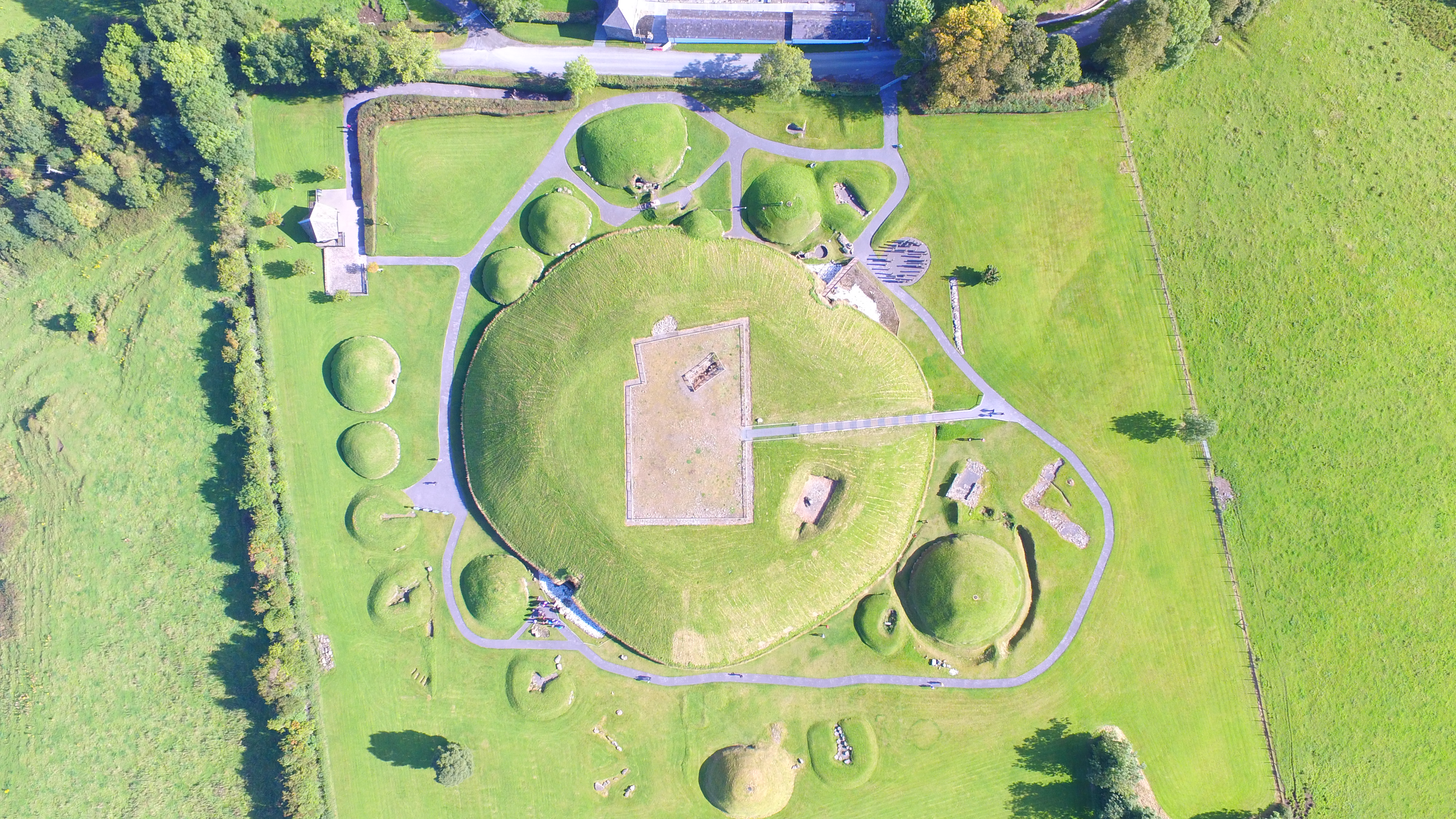 Knowth Passage Tomb Cemetery